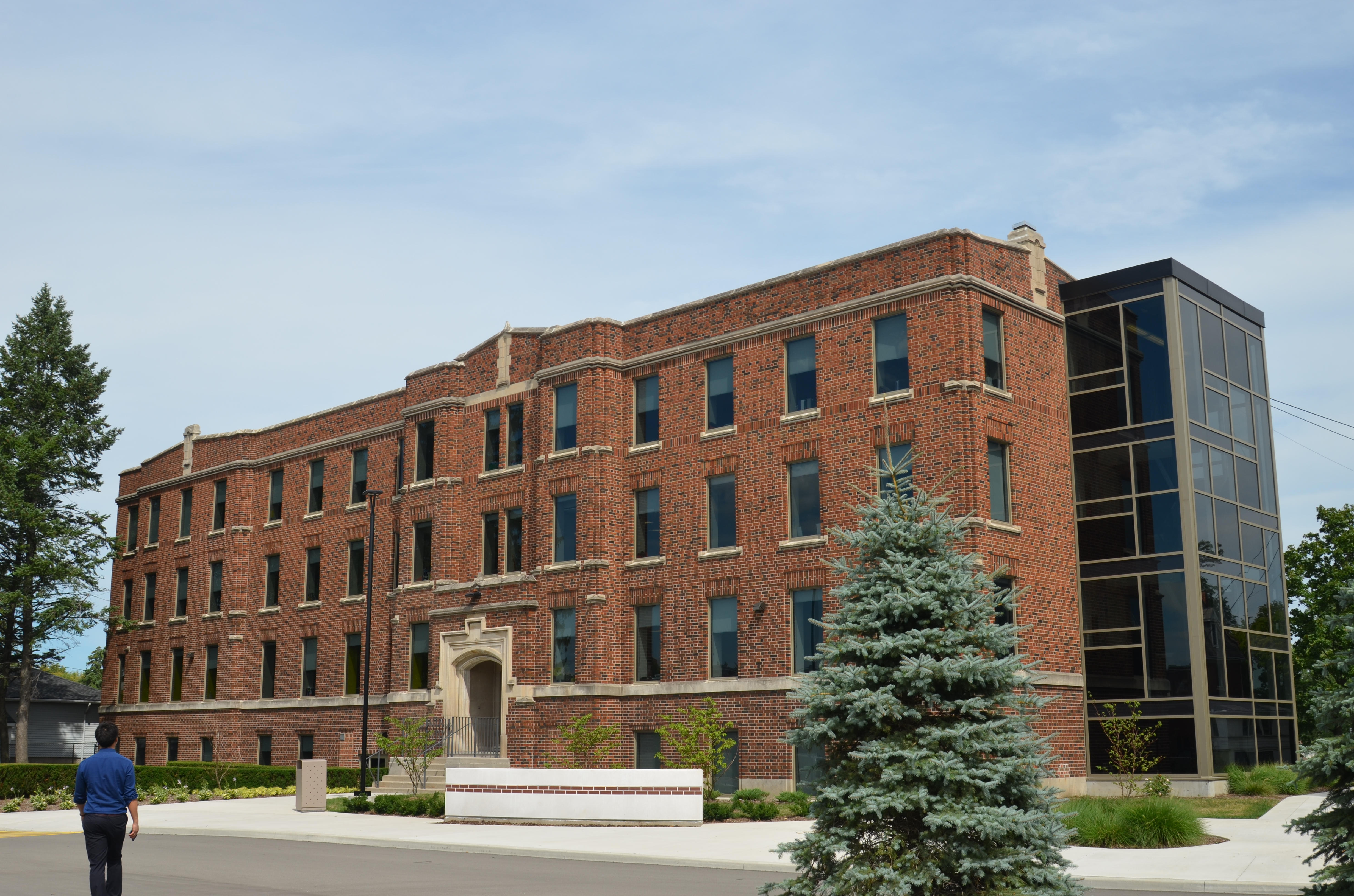 Cedar Building, Columbia International College